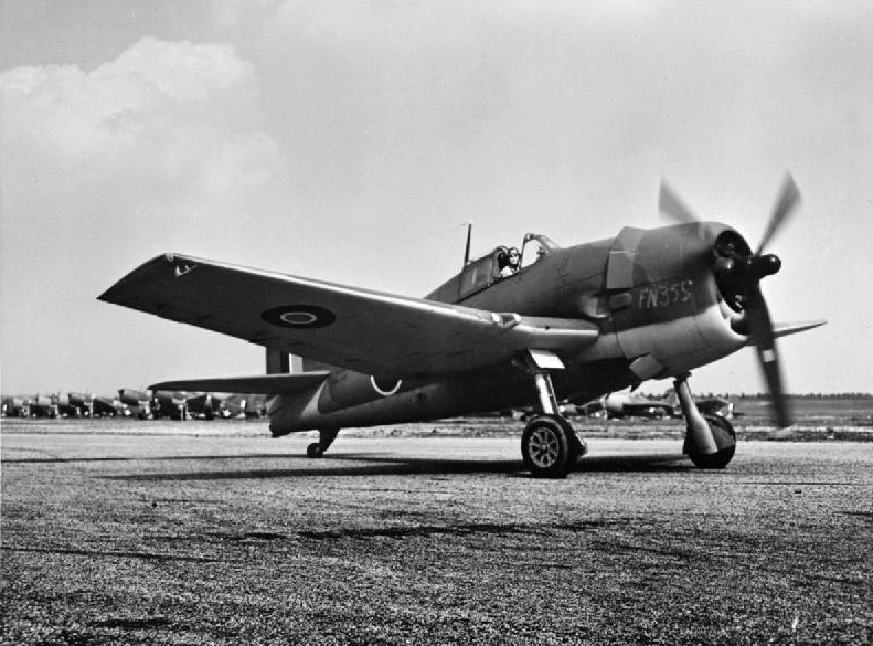 A Royal Navy Grumman Hellcat F.I about to take off from Roosevelt Field, Long Island, New York (USA), October 1943.